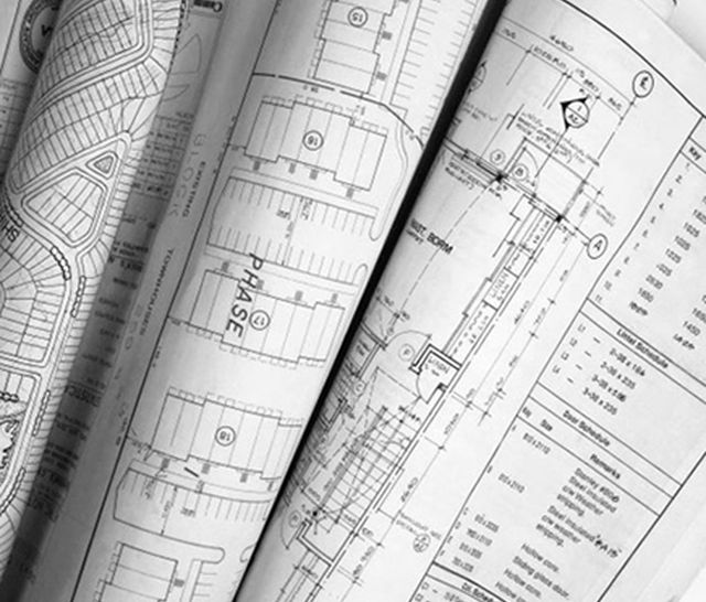 Plan copy made by the heliographyc technique known as whiteprint.